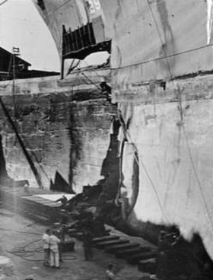 The U.S. Navy Northampton-class heavy cruiser USS Chicago (CA-29) in a drydock at the Cockatoo Island dockyard, Sydney, Australia. She clearly shows the torpedo damage in the bow that she received during the "Battle of Savo" on 9 August 1942. At 01:47, a torpedo, probably from the Japanese cruiser Kako, had hit Chicago’s bow.